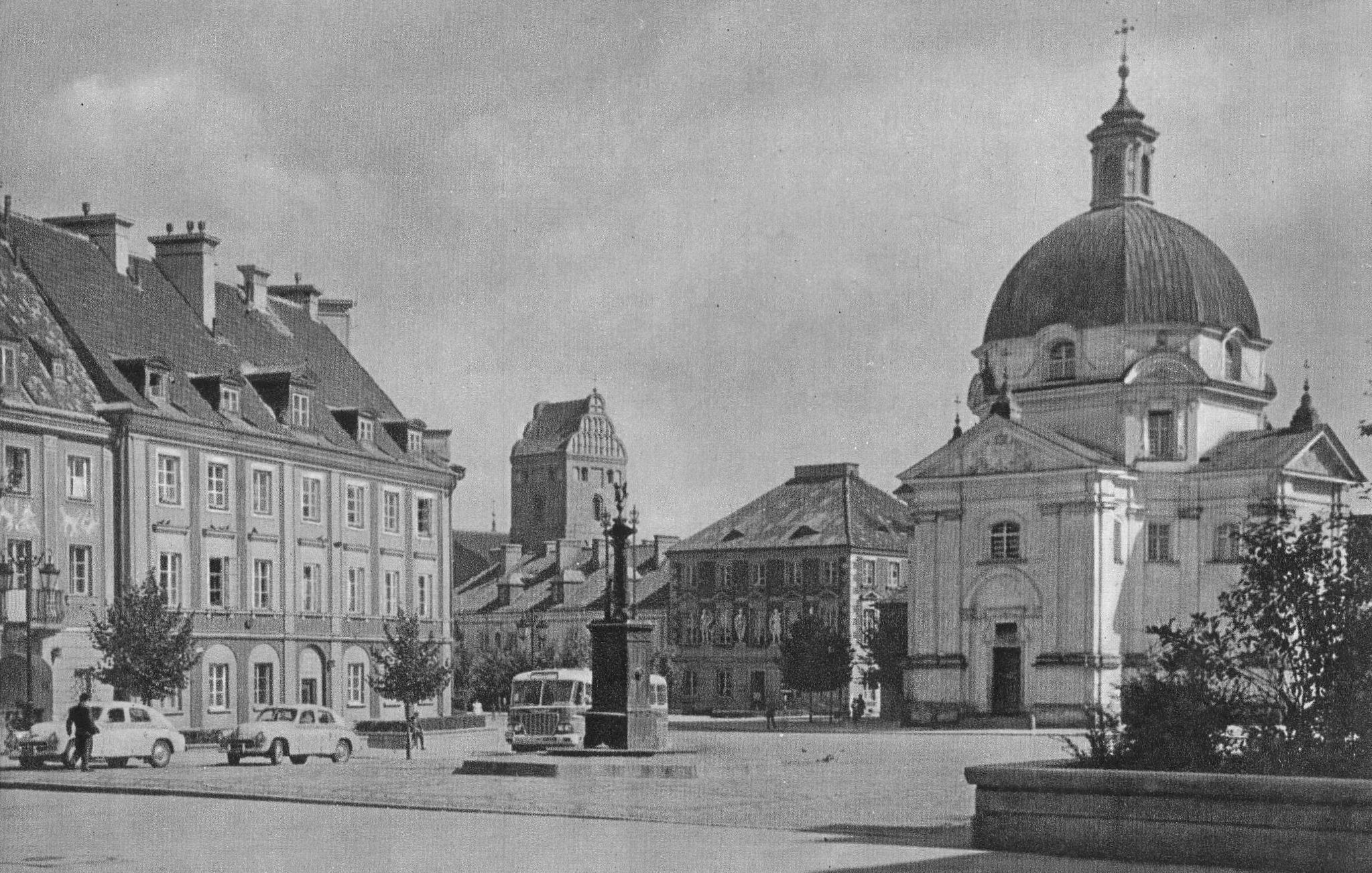 New Town Square in Warsaw